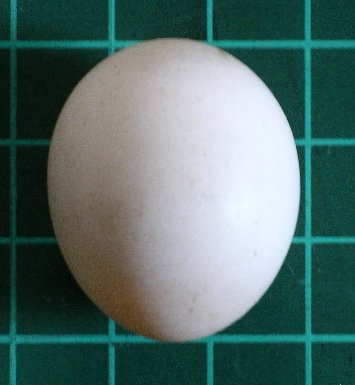 Photo taken by me. The egg was removed from a Senegal parrot nesting box after an egg check at about 5 days after laying. This egg was broken by the parents and the egg was removed in case this broken egg infected the remaining healthy egg. The cracked area is on the far side of the egg not seen in the picture. The hen Senegal parrot continued to incubate the remaining egg in the nesting box.